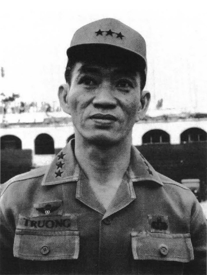 From Major Charles D. Melson and Lt. Colonel Curtis G. Arnold, The War That Would Not End, 1971-1973. Washington DC: Marine Corps History and Museums Division, 1991.